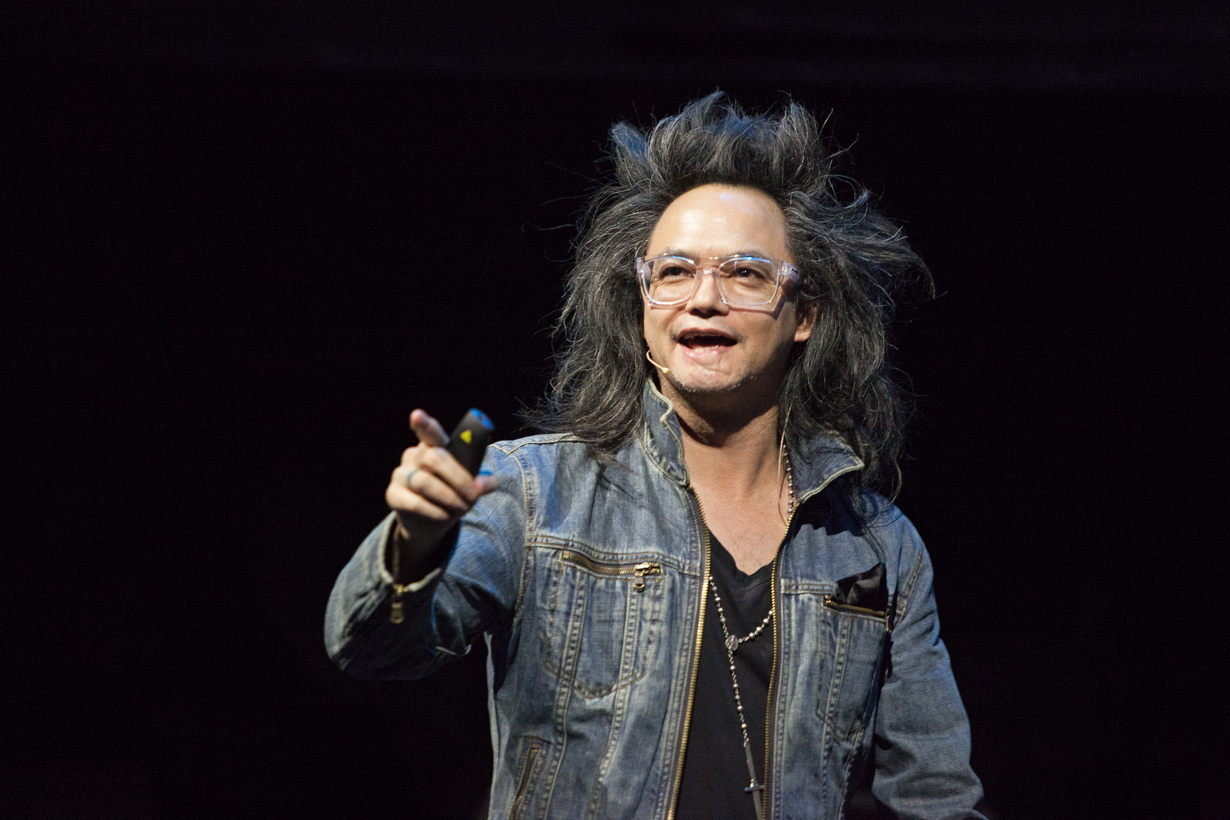 Gulltaggen was founded in 1998, first and foremost to stimulate and reward the heroes in digital creativity. Today, Gulltaggen is the largest event in Norway and the Nordic countries within digital marketing, communication, innovation, leadership and creativity. It has by far become the best arena for sharing competence, knowledge and networking. Gulltaggen is organized by the non-profit trade organizationINMA / IAB Norway Fotograf: Jarle Naustvik